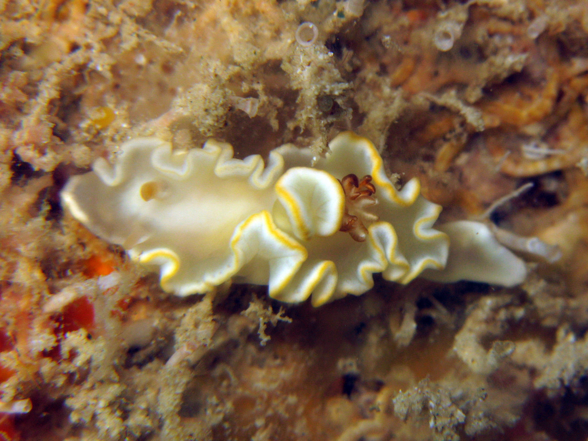 Ardeadoris angustolutea (Rudman, 1990) (synonym: Noumea angustolute)a, 10 feet, Guam